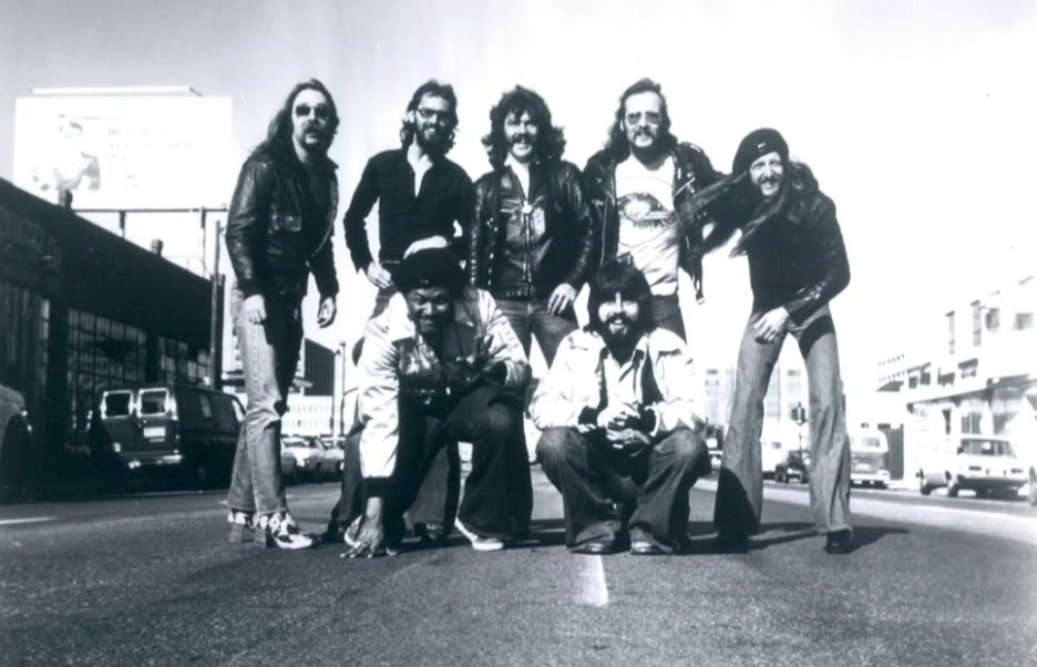 Publicity photo of the music group The Doobie Brothers.